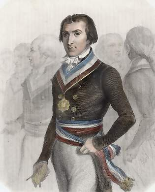 Original steel engraving drawn by Raffet, engraved by Mauduison. 1847. Very good condition. Hand-coloured. 12x10cm.